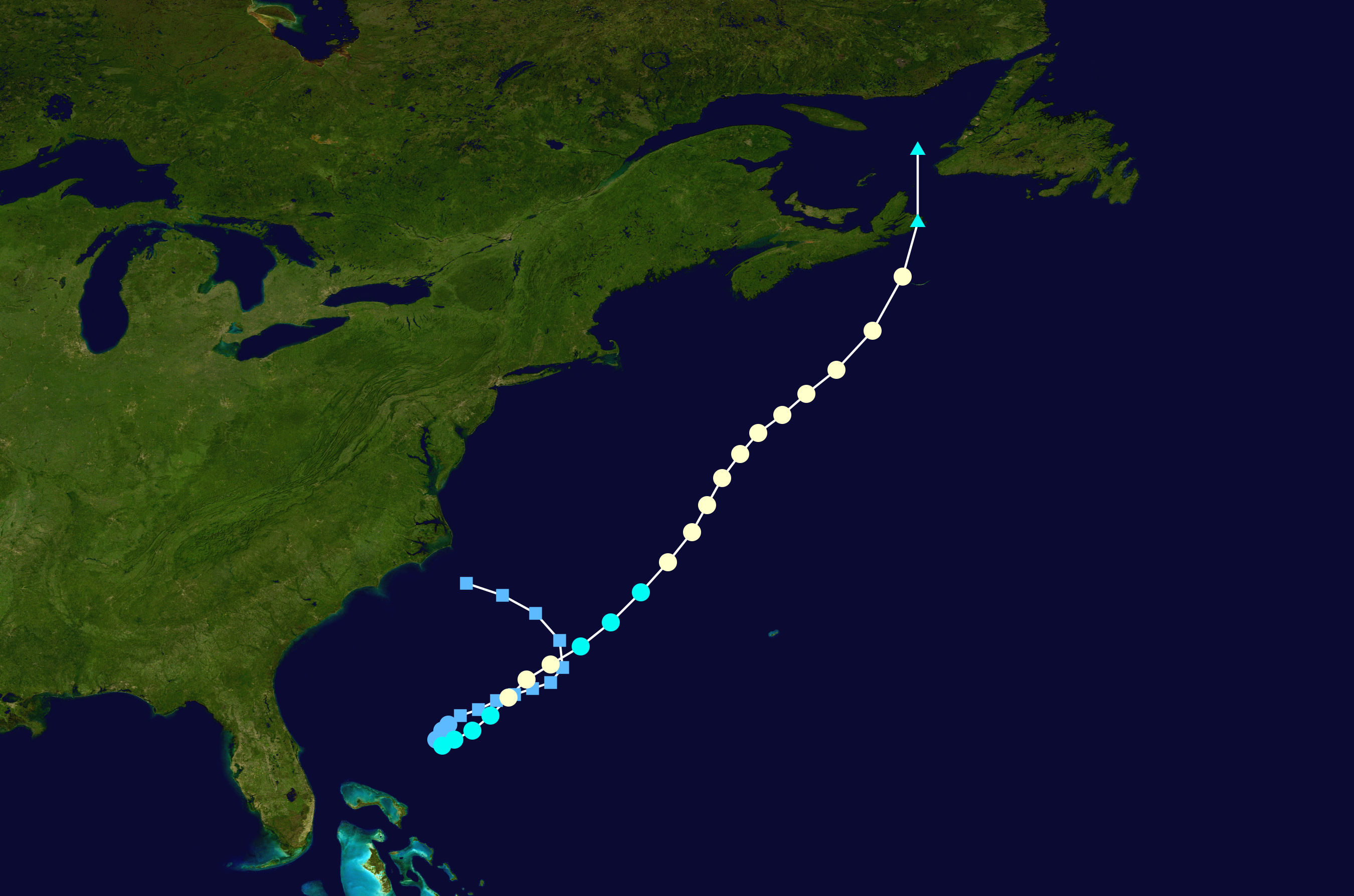 Track map of Hurricane Bertha of the 1990 Atlantic hurricane season. The points show the location of the storm at 6-hour intervals. The colour represents the storm's maximum sustained wind speeds as classified in the Saffir–Simpson scale (see below), and the shape of the data points represent the nature of the storm, according to the legend below. Saffir–Simpson scale Tropical depression≤38 mph≤62 km/h Category 3111–129 mph178–208 km/h Tropical storm39–73 mph63–118 km/h Category 4130–156 mph209–251 km/h Category 174–95 mph119–153 km/h Category 5≥157 mph≥252 km/h Category 296–110 mph154–177 km/h Unknown Storm type Tropical cyclone Subtropical cyclone Extratropical cyclone / Remnant low / Tropical disturbance / Monsoon depression